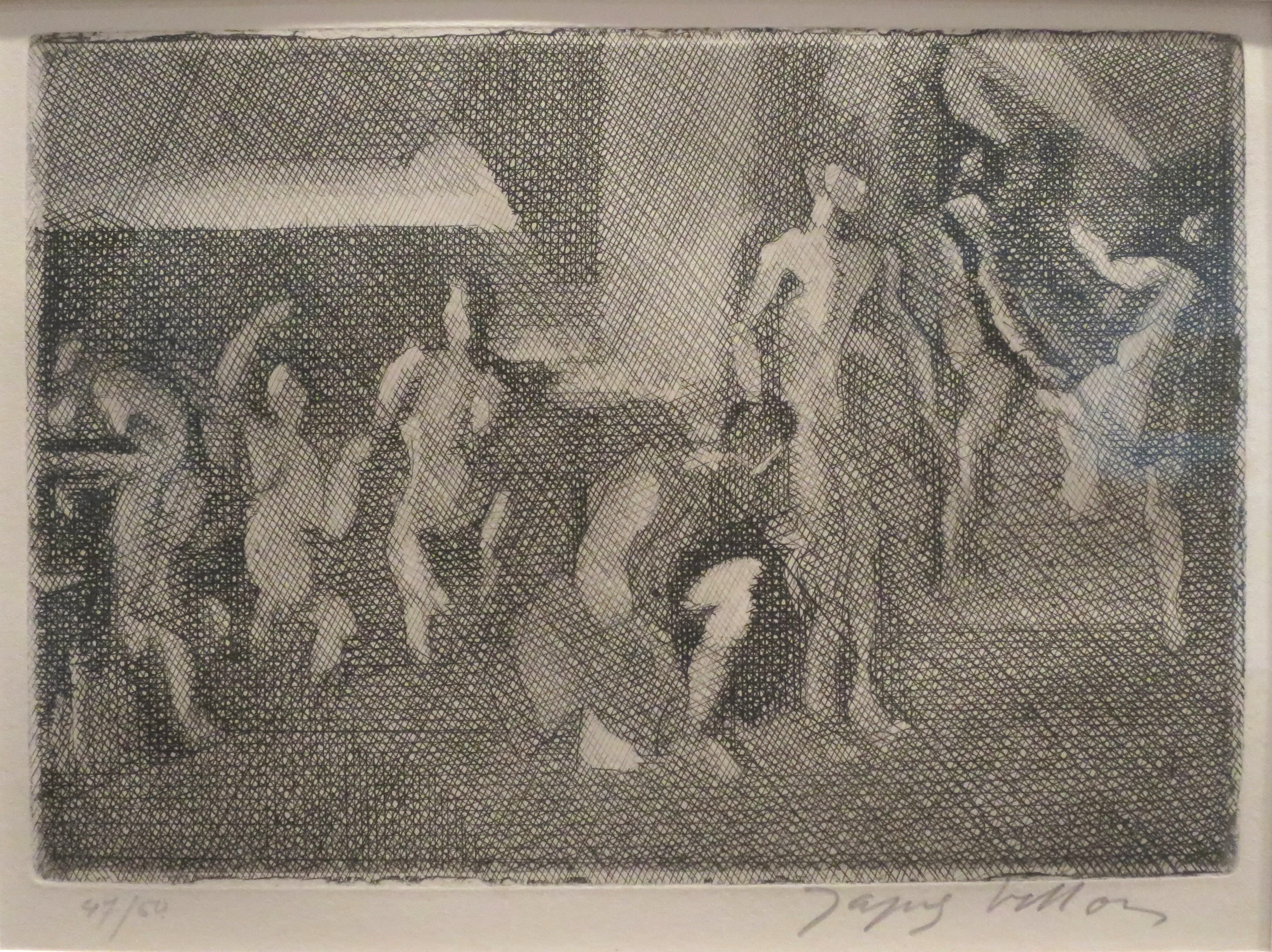 The Wild Twenty Years